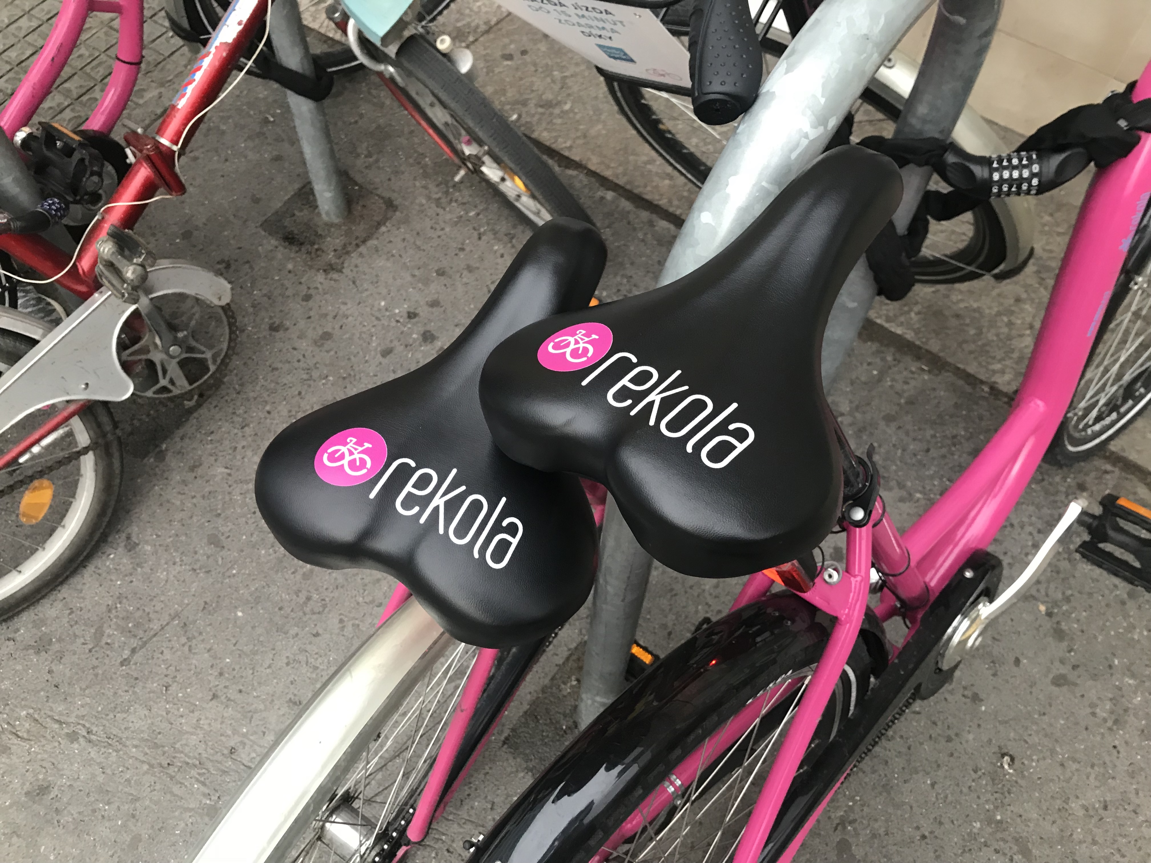 Detail of saddles of bike sharing company in Prague, which is called Rekola.